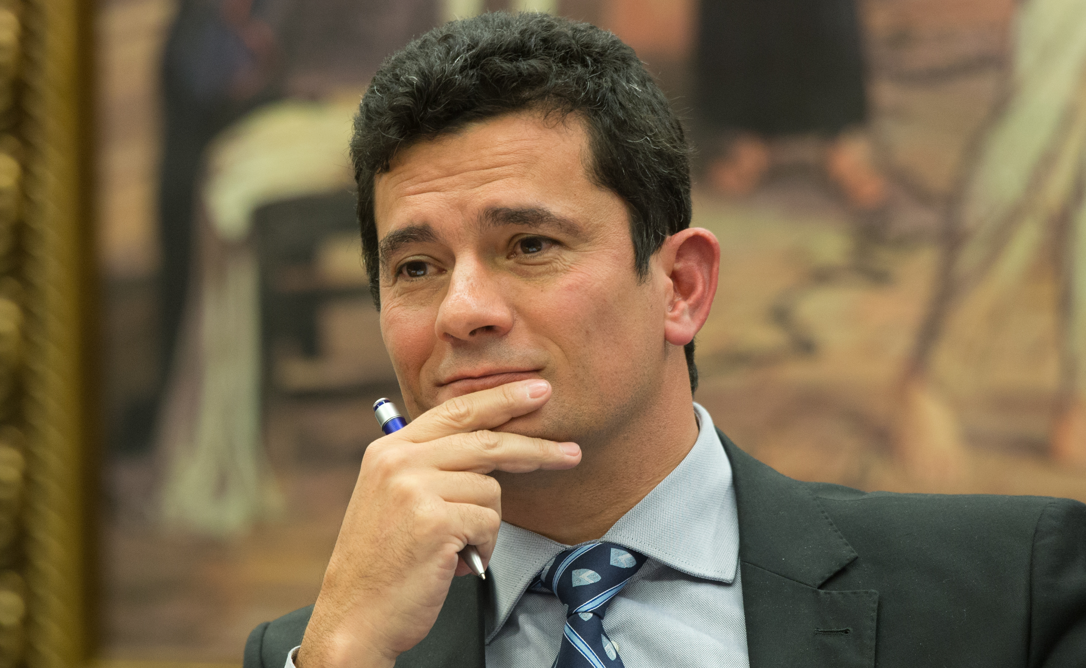 Brasília 30/03/2017 - Juiz Sérgio Moro durante depoimento na comissão da reforma do Código de Processo Penal. Foto: Lula Marques/Agência PT